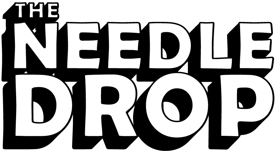 Text logo for YouTube channel The Needle Drop